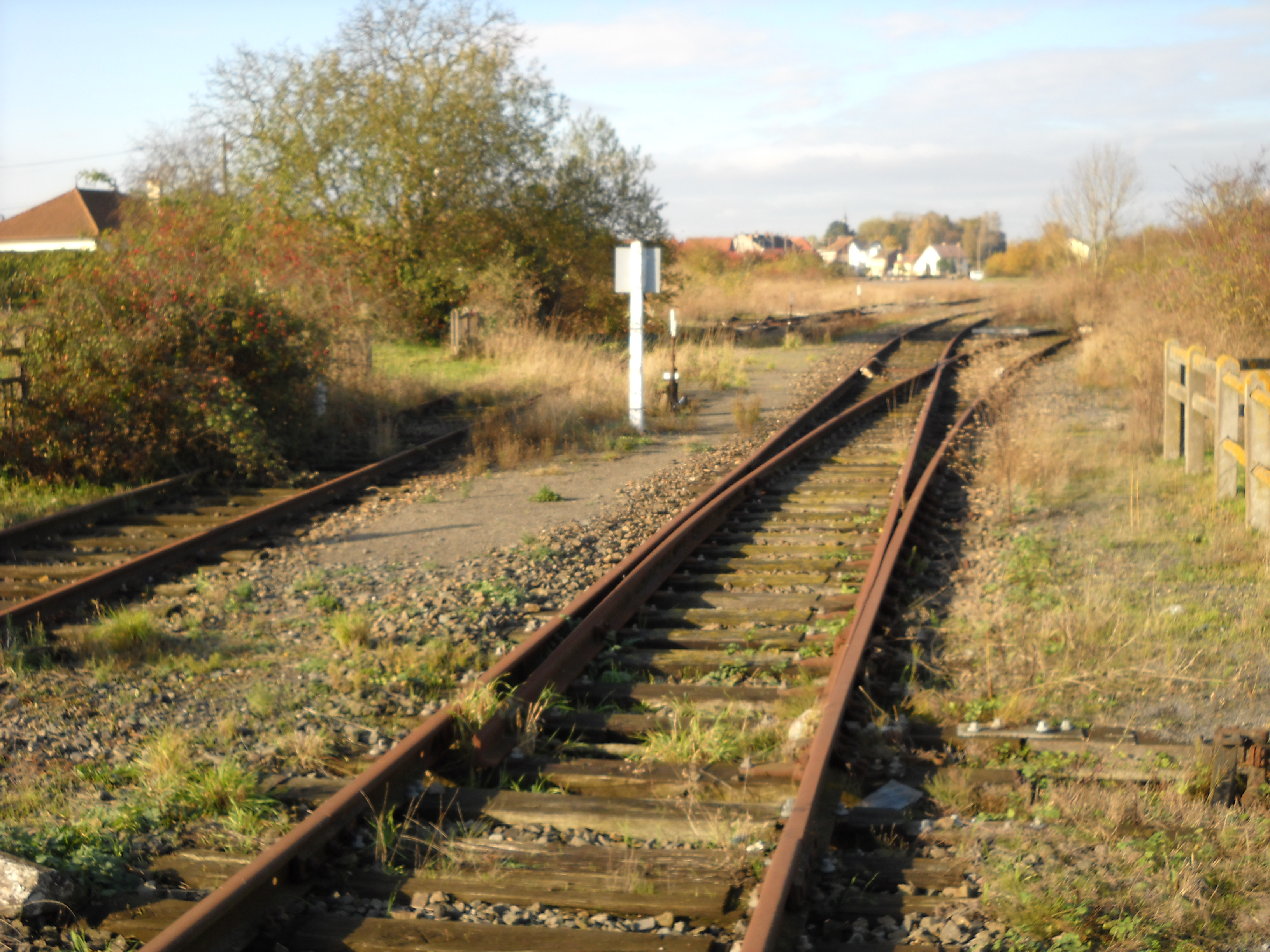 Old rail tracks in Aire-sur-la-Lys, Pas-de-Calais, France.